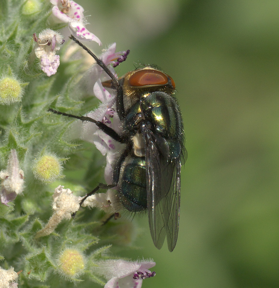 A secondary screwworm fly in catnip